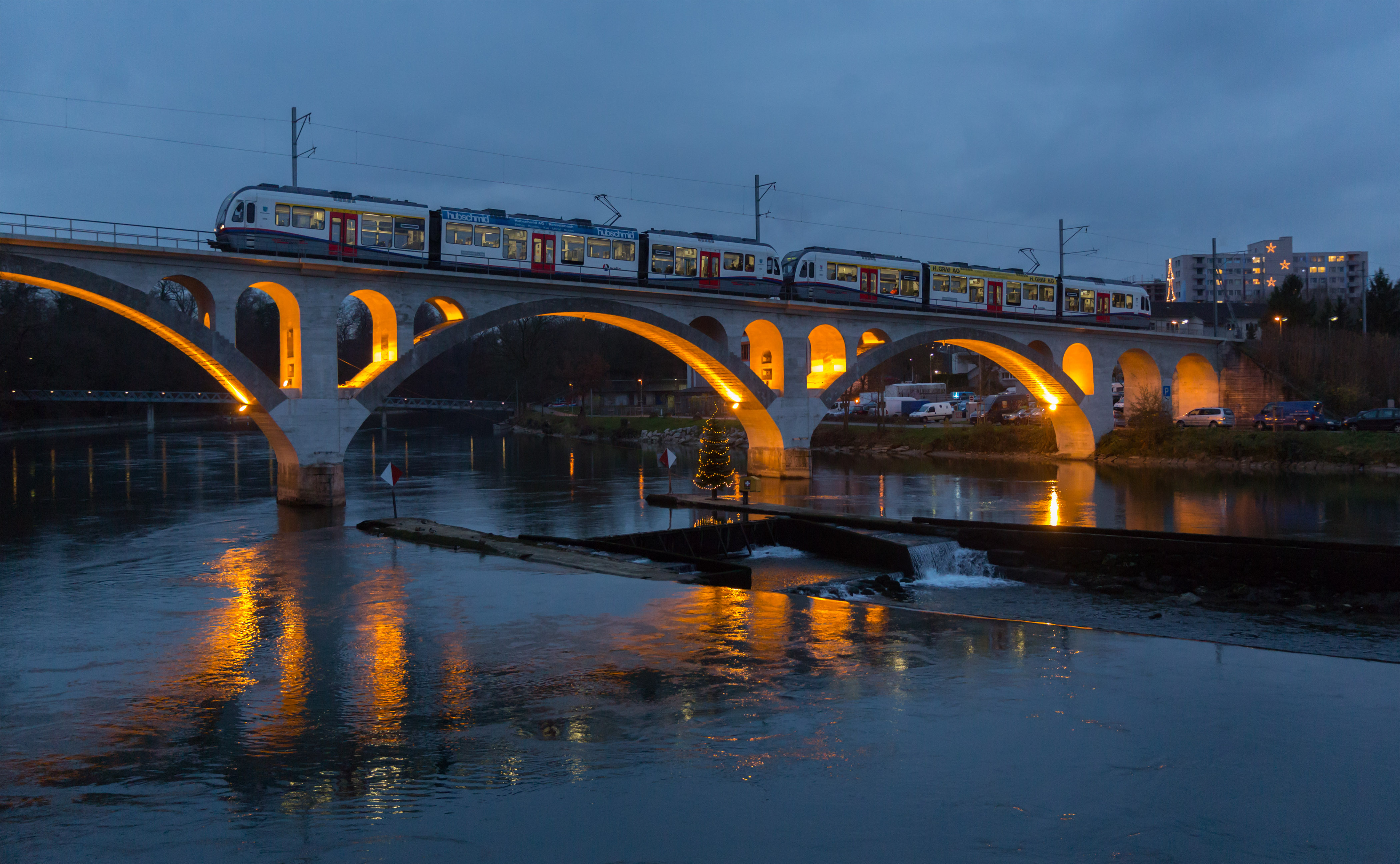 Two ABe 4/8 "Diamant" EMUs of the Bremgarten-Dietikon-Bahn (BDWM Transport AG) cross the Reuss in Bremgarten, Switzerland.